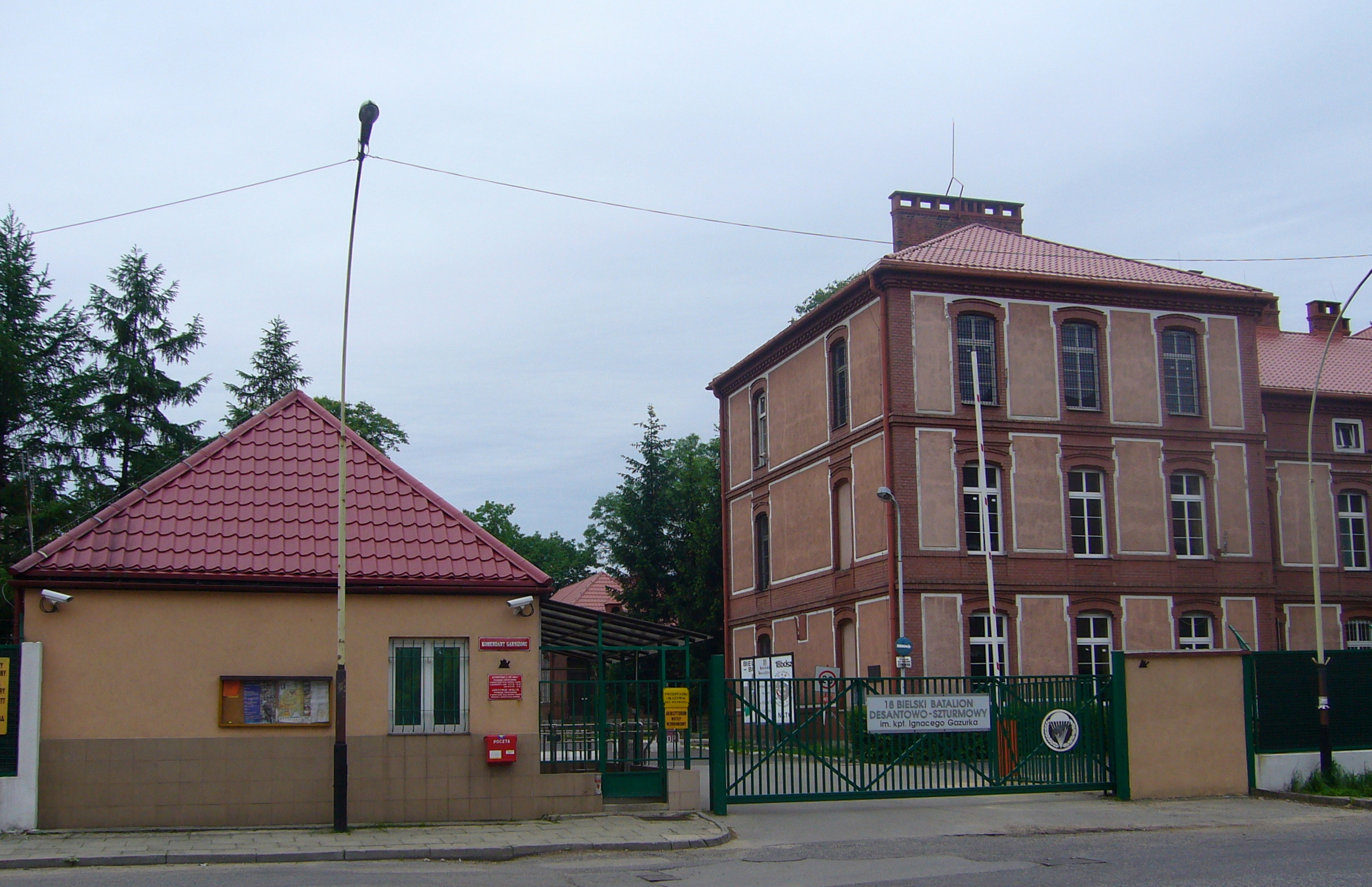 Barracks in Bielsko-Biała, Poland. Main gate.